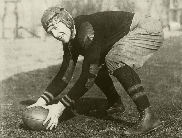 Captain John J. McEwan, Army, 1916